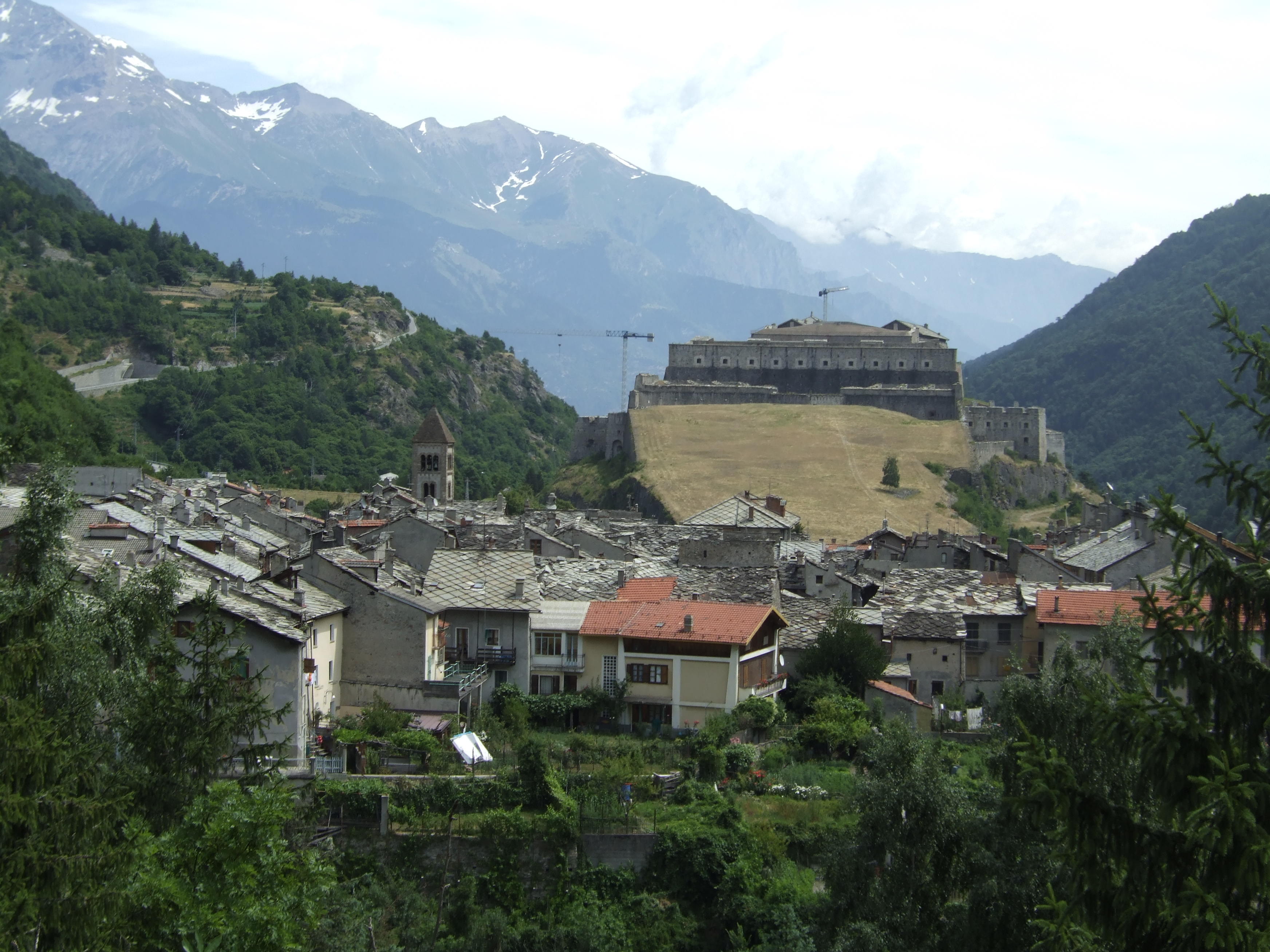 Exilles (province of Torino, Italy) and its fortress on the background